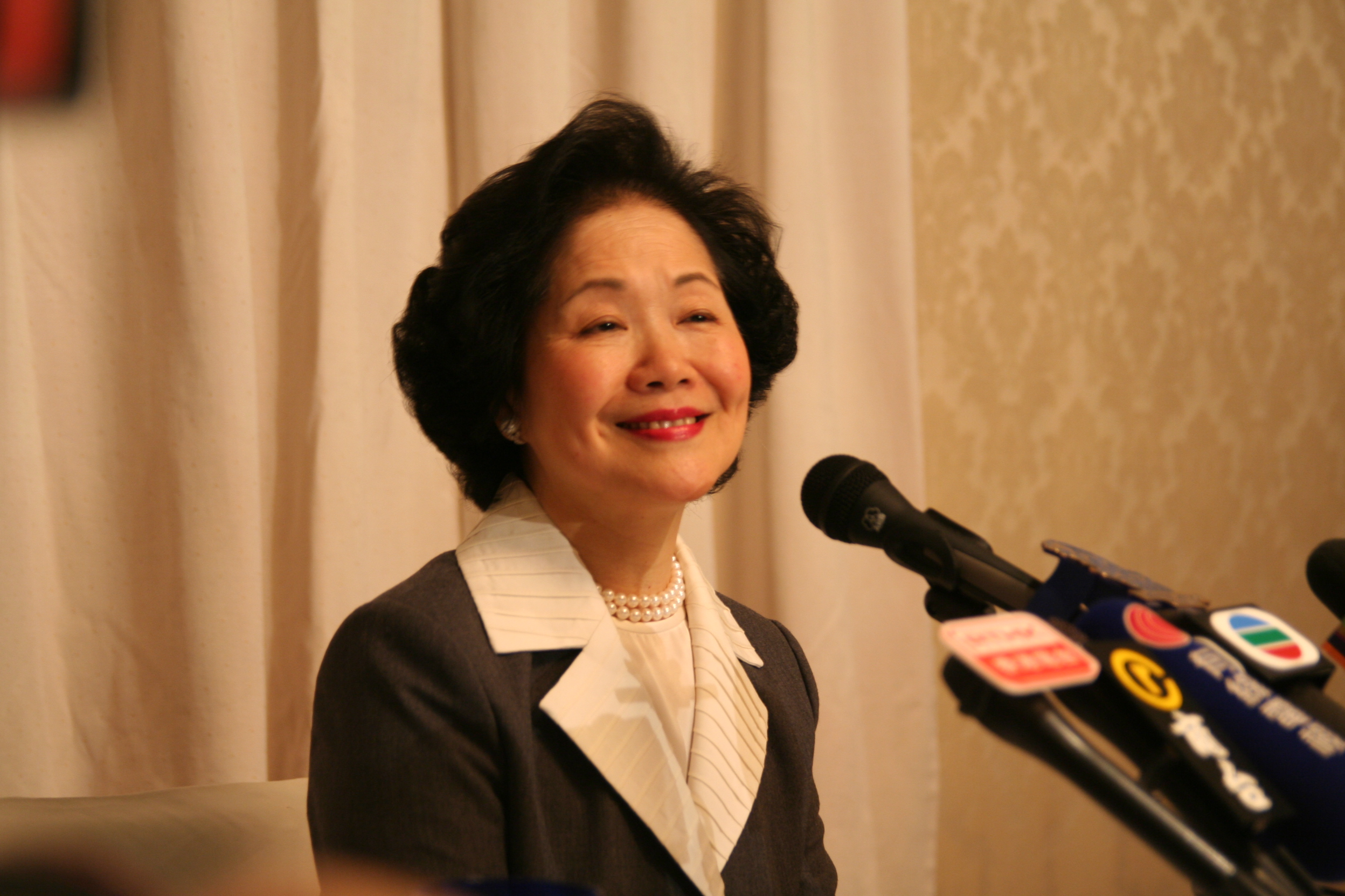 Anson Chan, former Chief Secretary for Administration, Hong Kong